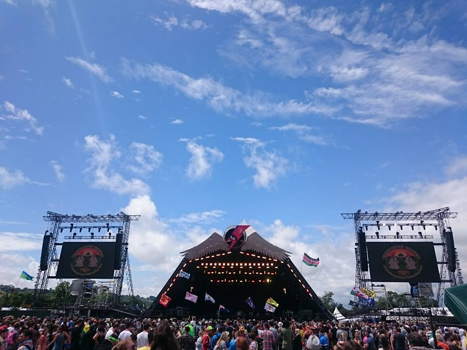 View of the pyramid stage at the Glastonbury Festival, 26 June 2016.